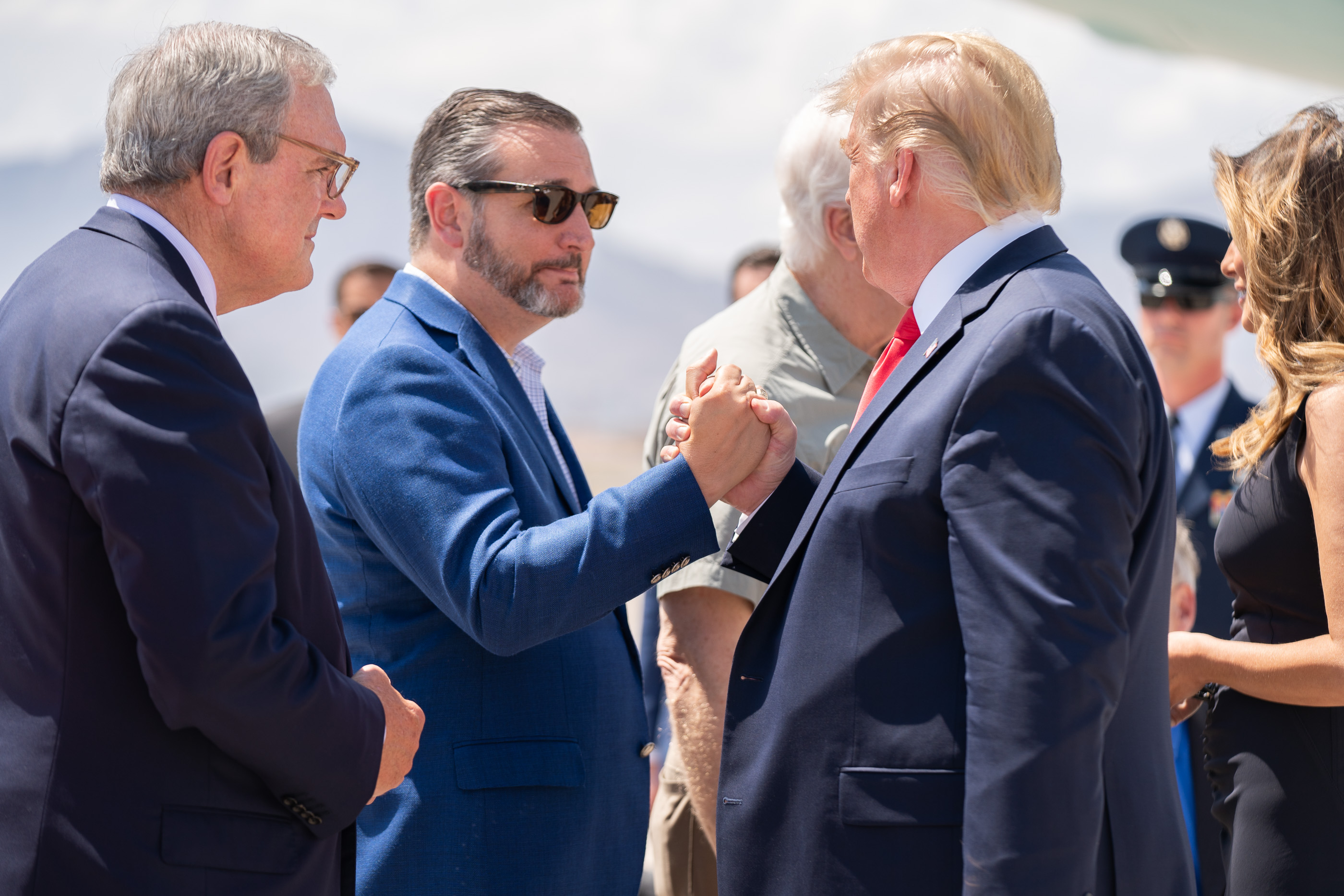 President Donald J. Trump and First Lady Melania Trump disembark Air Force One Wednesday, Aug. 7, 2019, at El Paso International Airport greeted by Texas Governor Greg Abbott, Senators John Cornyn and Ted Cruz, and El Paso Mayor Dee Margo. (Official White House Photo by Shealah Craighead)